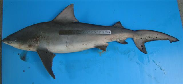 Pigeye shark (Carcharhinus amboinensis) at Ranong Fishing Port, Thailand